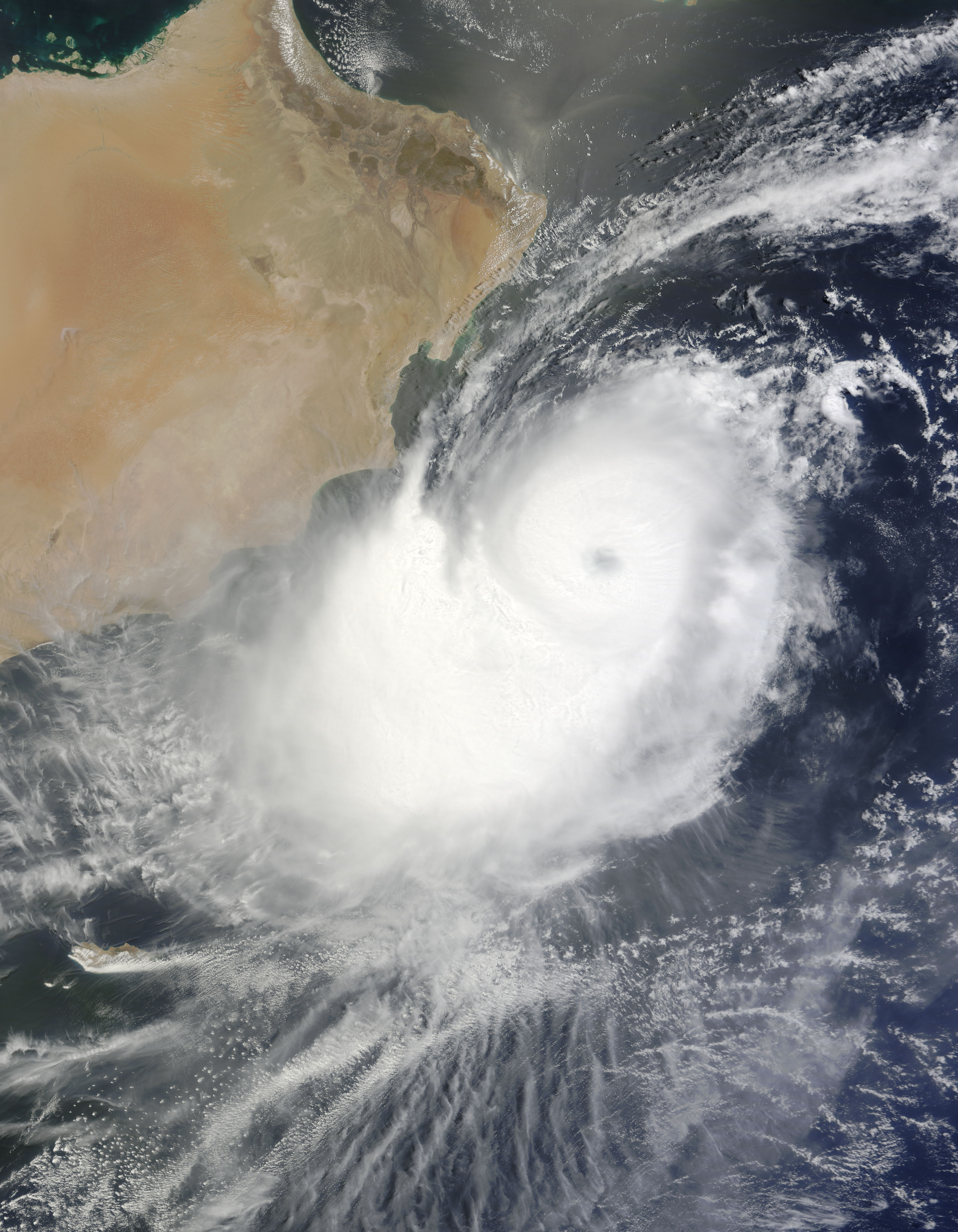 Cyclone Phet with winds around 125 mph.